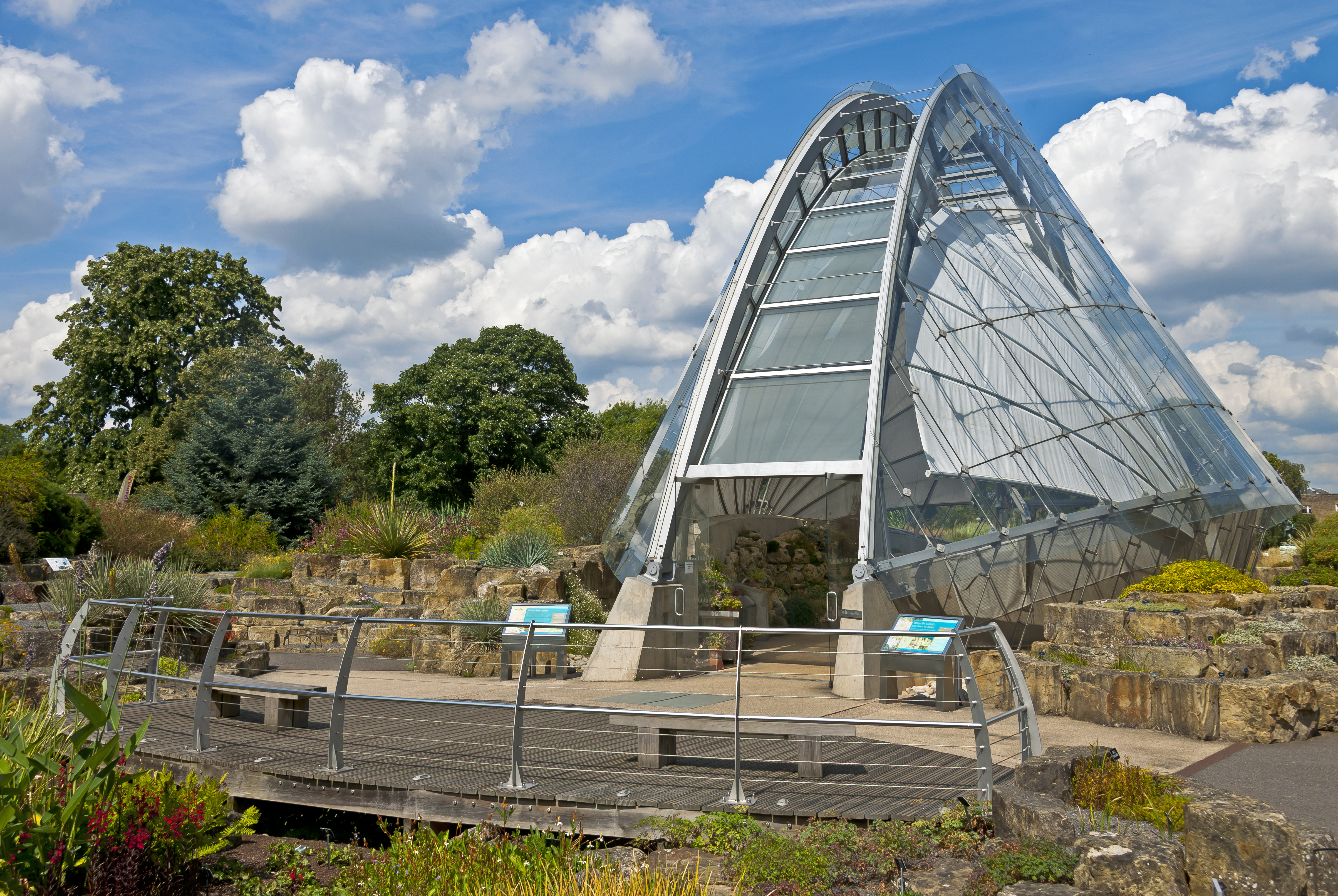 Alpine House at Kew Gardens